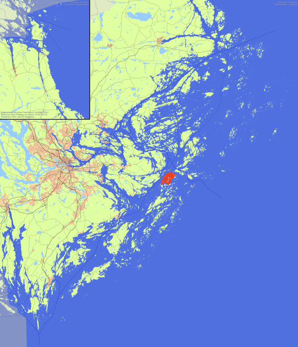 Location of the island Runmarö